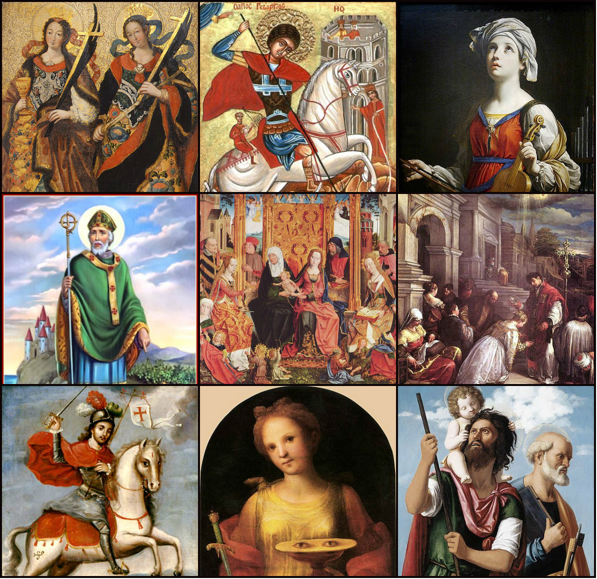 Saints of the Golden Legend. Anyone can use these original photos themselves among others and make another collage of (Saints of the Golden Legend) themselves or remix as they wish, as long as they give the correct source and usage/Copyright given. Dont delete the photos, if one becomes unusable due to copyright, please dont delete, just replace the photo or i will.